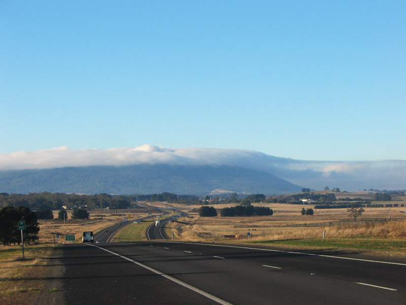 Looking south along the Calder Freeway towards Mt. Macedon. Photo taken by Richard Hill on 29/6/2005.